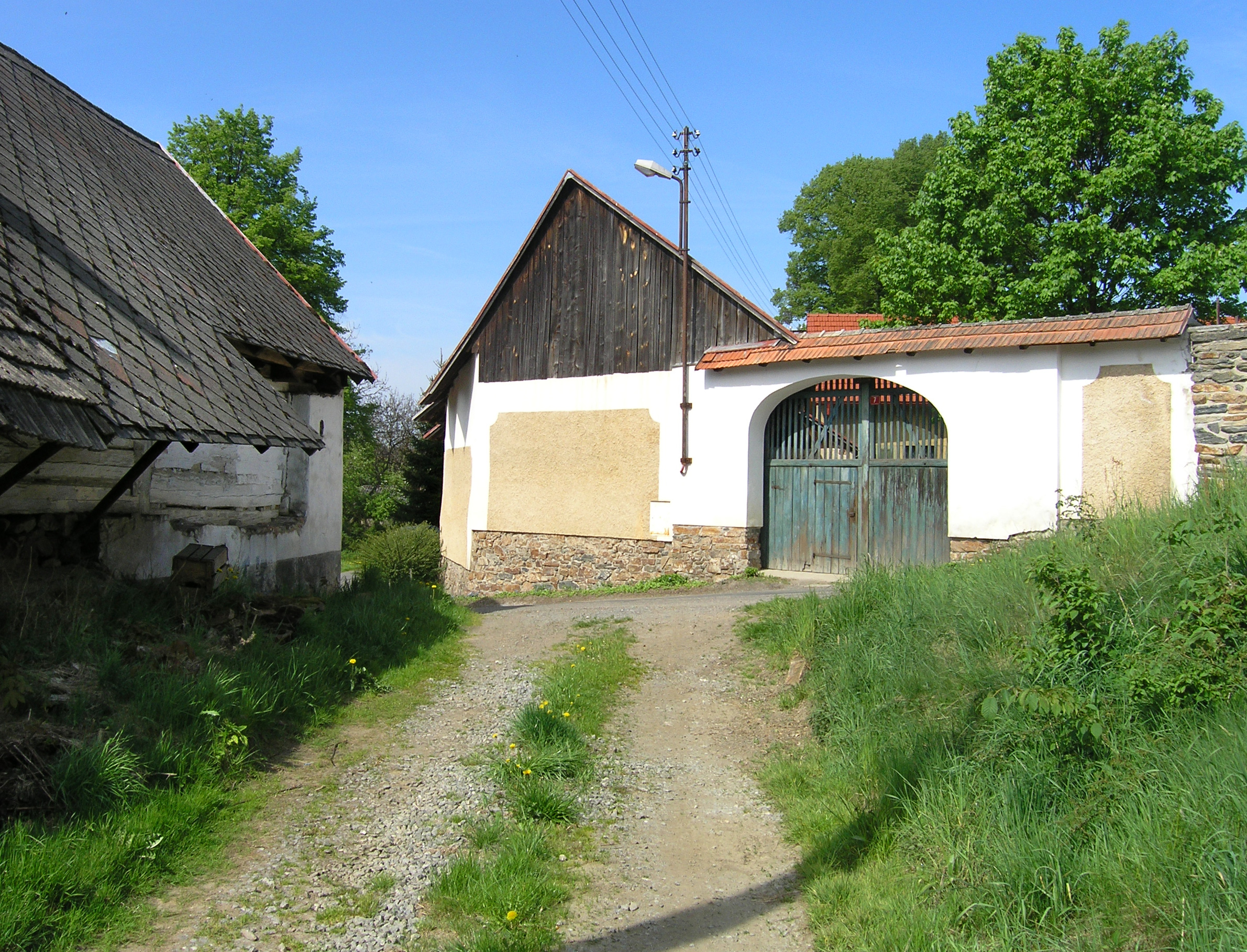 North part of Líštěnec, part of Smilkov village, Czech Republic